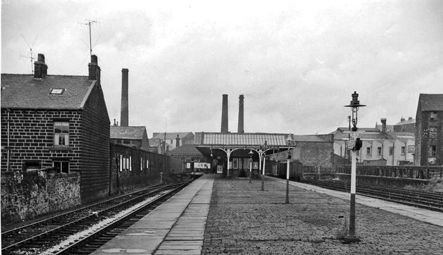 Bacup Station. View northwards, towards buffer-stops. Station was later closed, in December 1966.